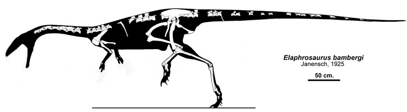 Skeletal reconstruction of Elaphrosaurus bambergi. Matches proportions of published skeletal reconstruction by Gregory S. Paul in the 1988 book Predatory Dinosaurs of the World.